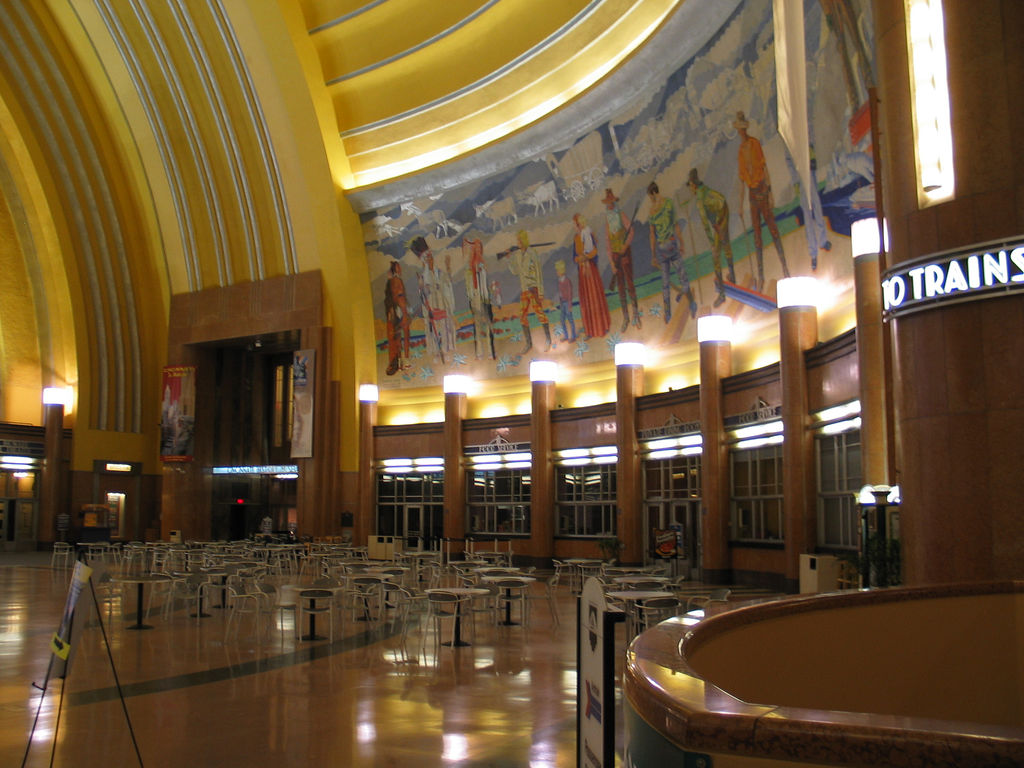 One of the mural replicas now present in Cincinnati Museum Center